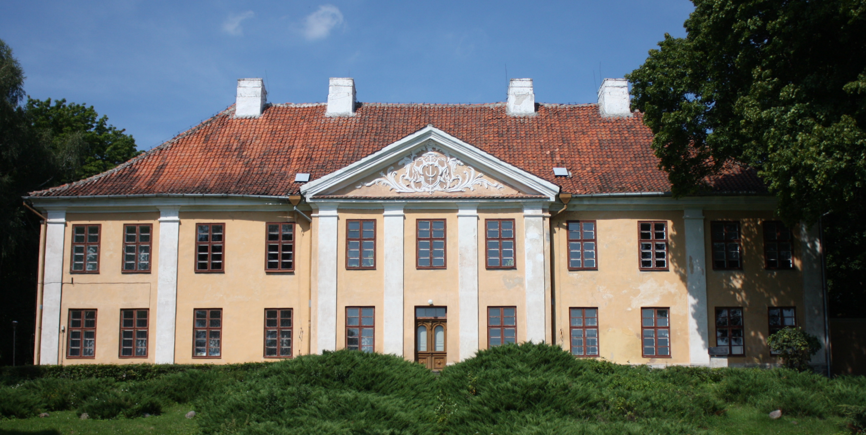 This photo of Warmian-Masurian Voivodeship was taken during Wikiexpedition 2012 set up by Wikimedia Polska Association.You can see all photographs in category Wikiekspedycja 2012. The making of this document was supported by Wikimedia Polska.